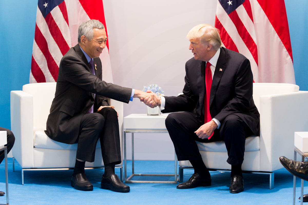 President Donald J. Trump and Prime Minister Lee Hsien Loong | July 8, 2017 (Official White House Photo by Shealah Craighead)